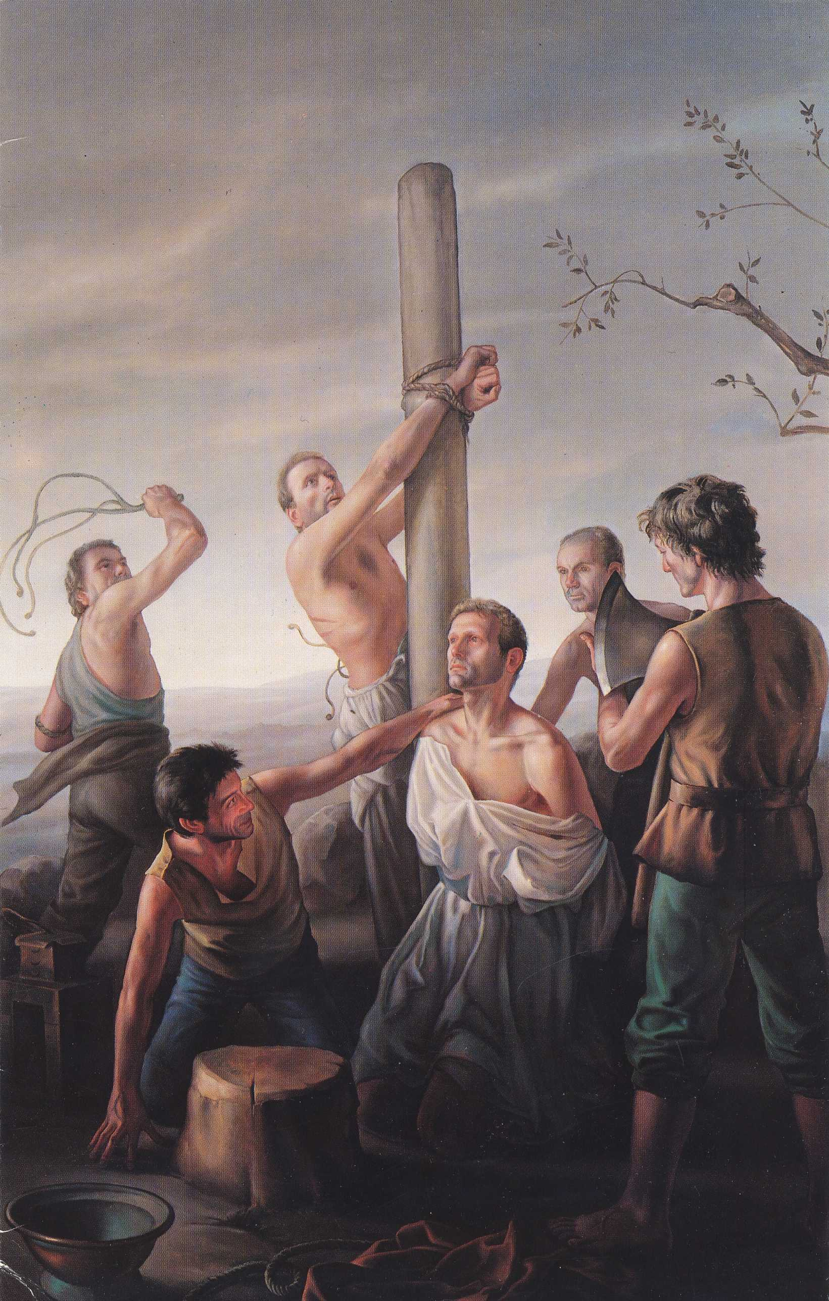 Paintings by Alfredo Cifariello